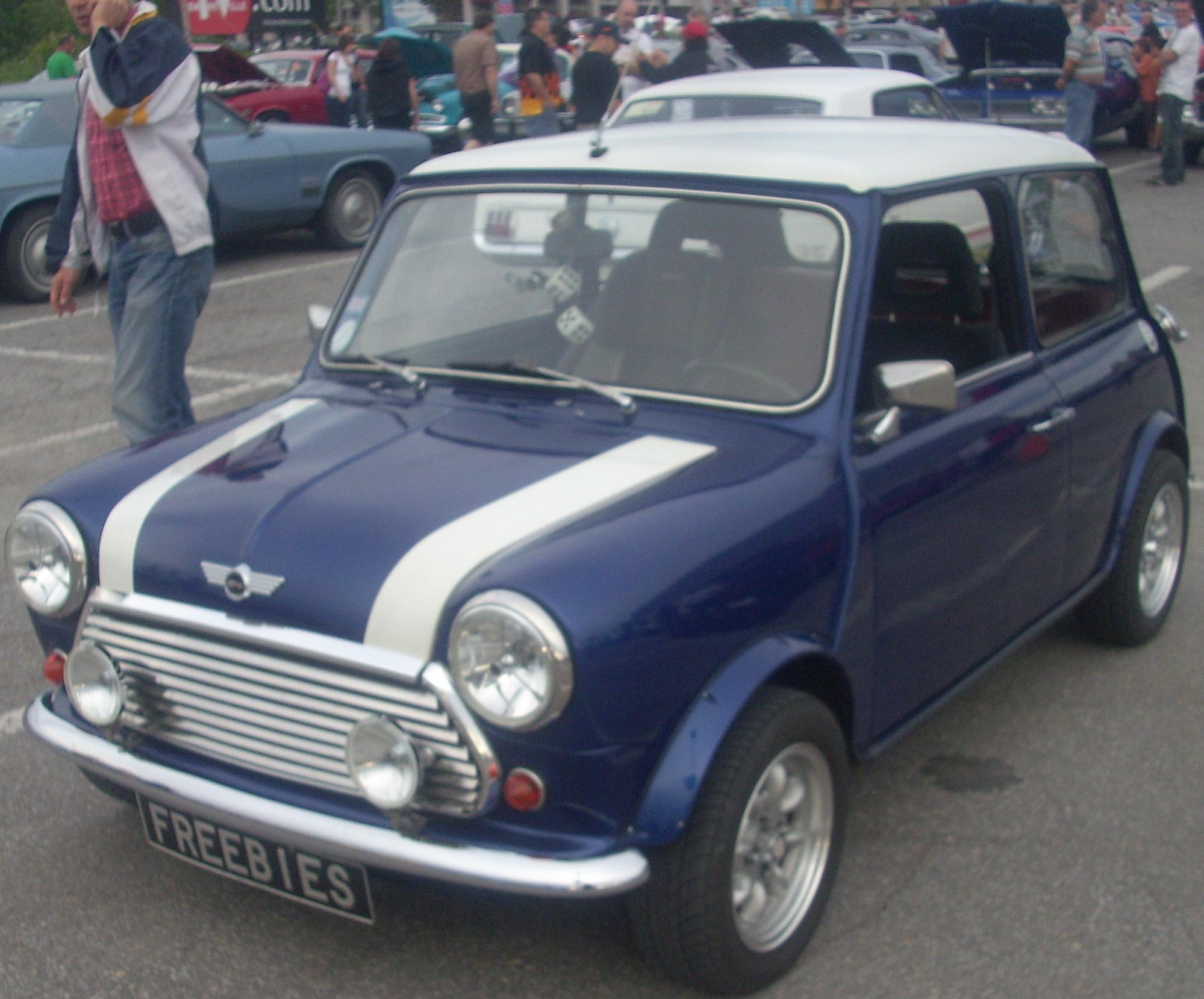 Mini Cooper photographed in Laval, Quebec, Canada at Les chauds vendredis 2010.